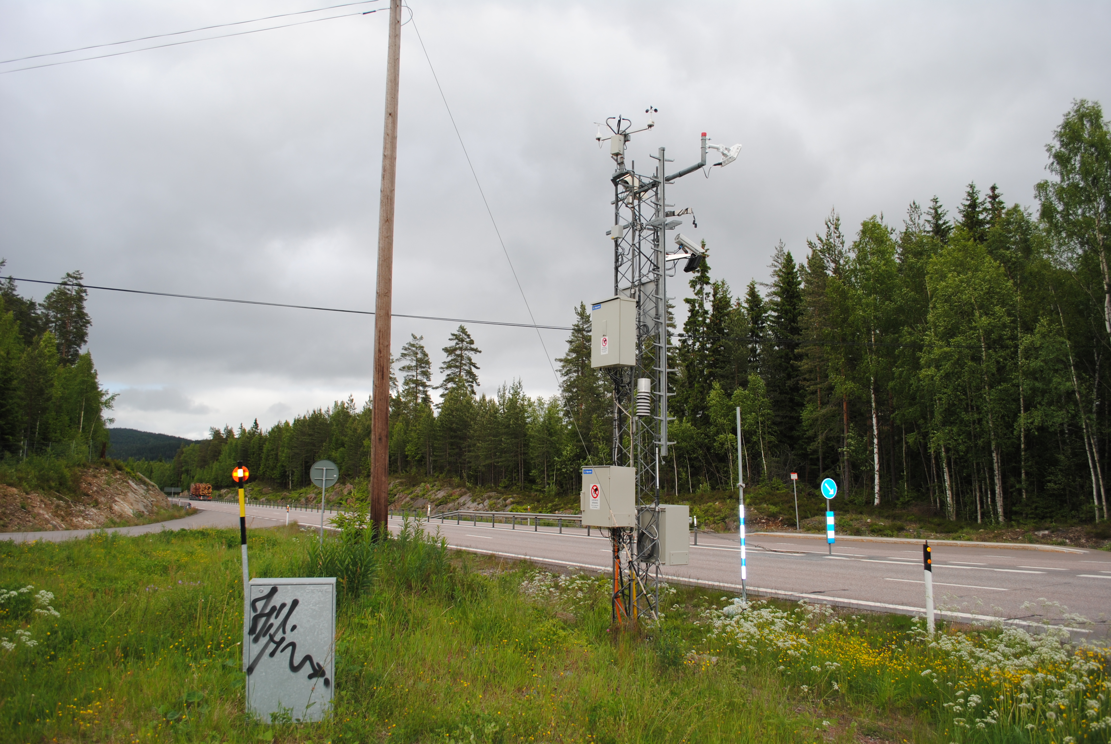 Rwis Station at sensor site Myggsjön